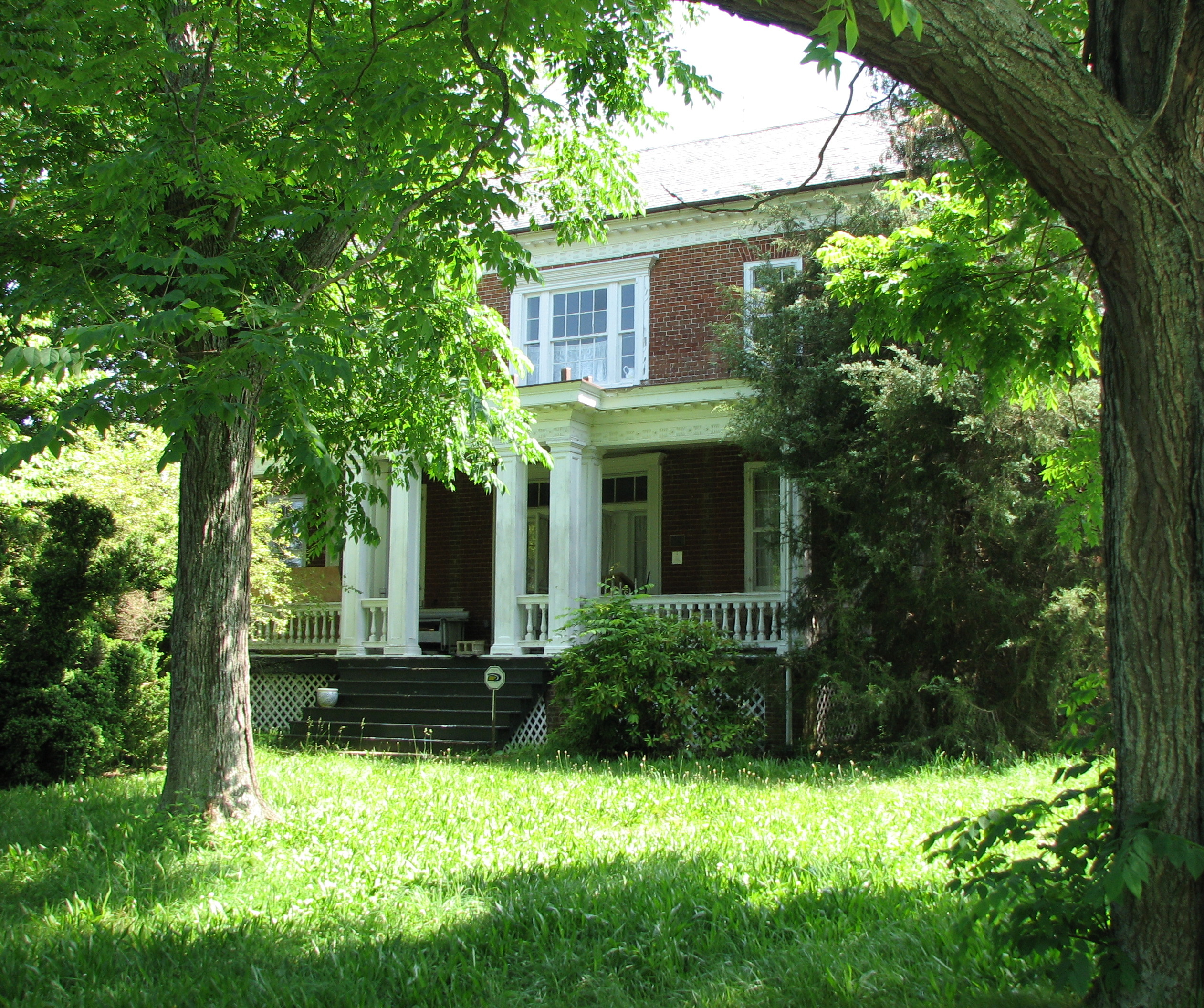 Listed on the National Register of Historic Places in Spotsylvania County, Virginia